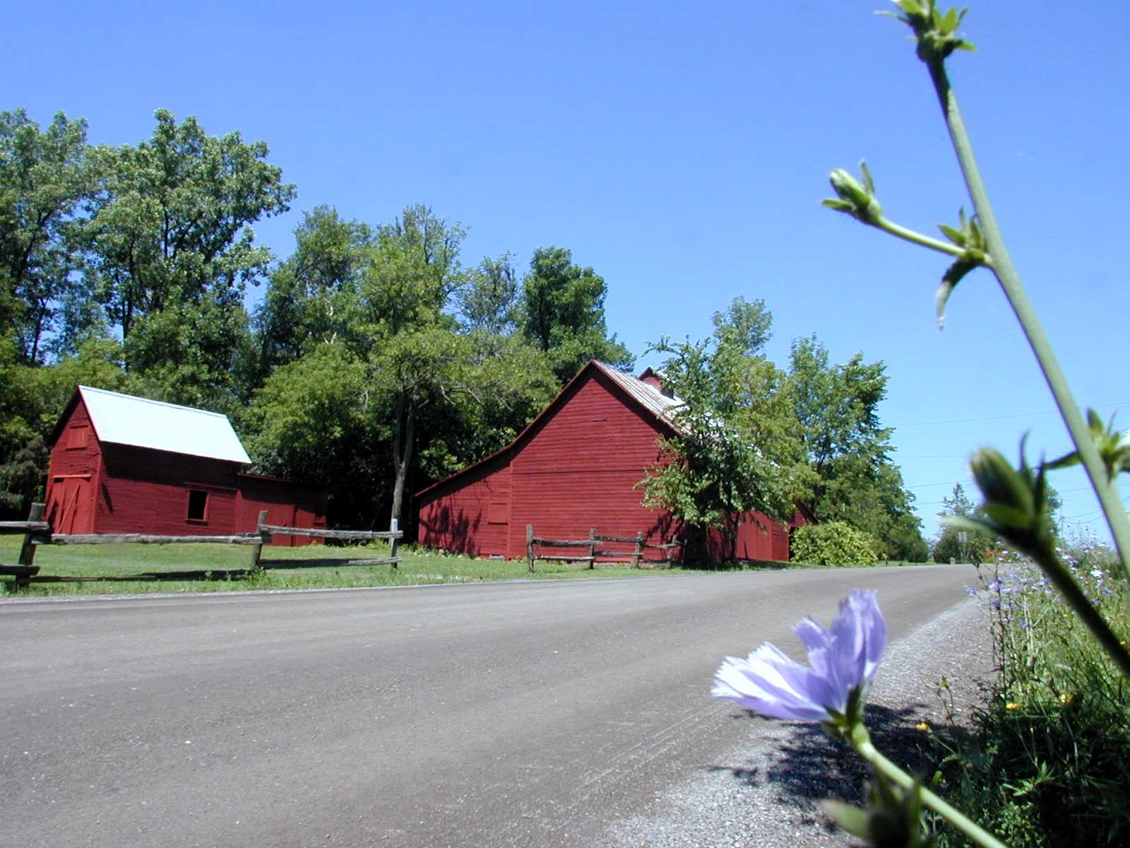 A barn on the West Shore Road in South Hero, Vermont.